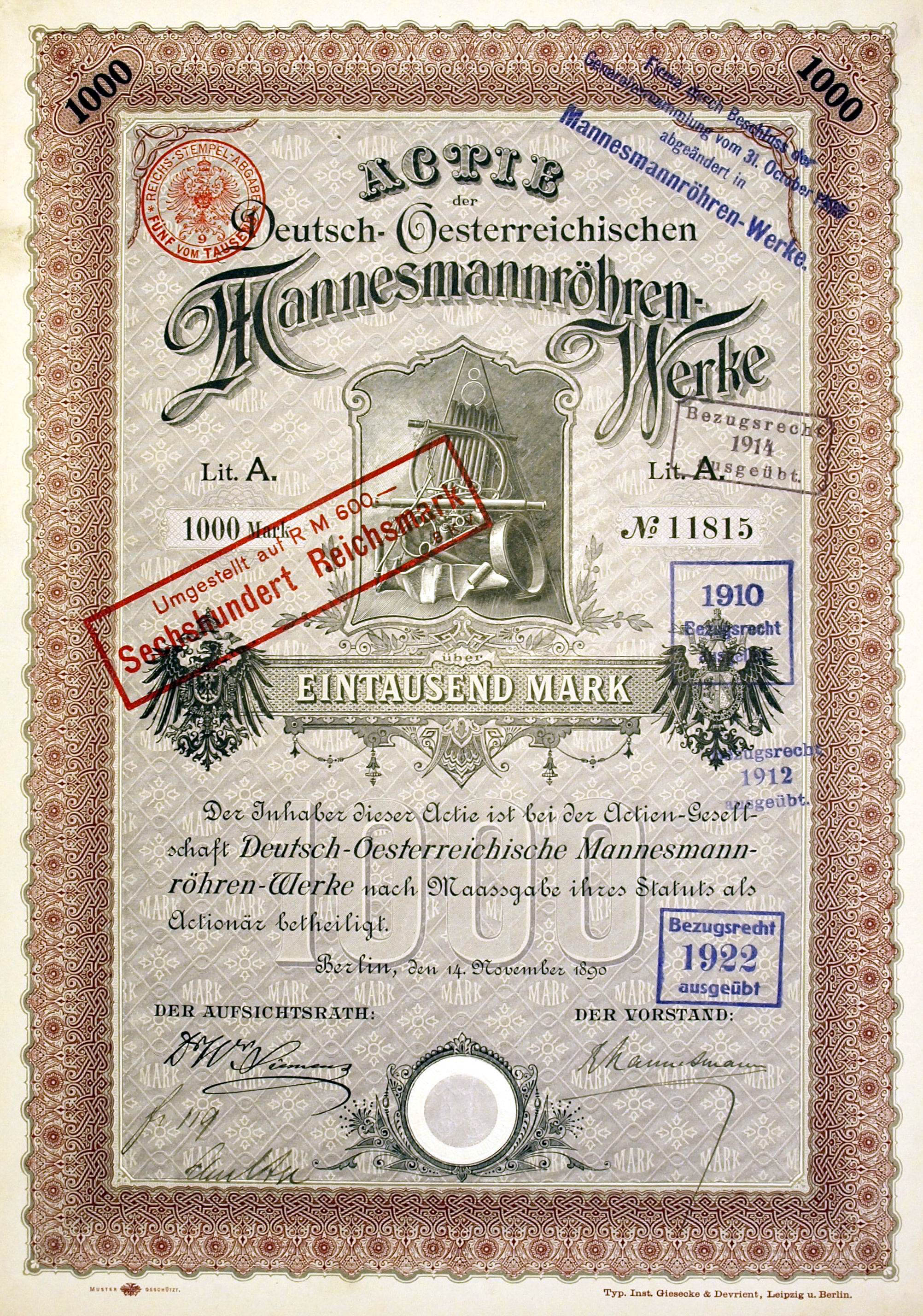 Share of the Deutsch-Oesterreichischen Mannesmannröhren-Werke, issued 14. November 1890, signed by Reinhard Mannesmann